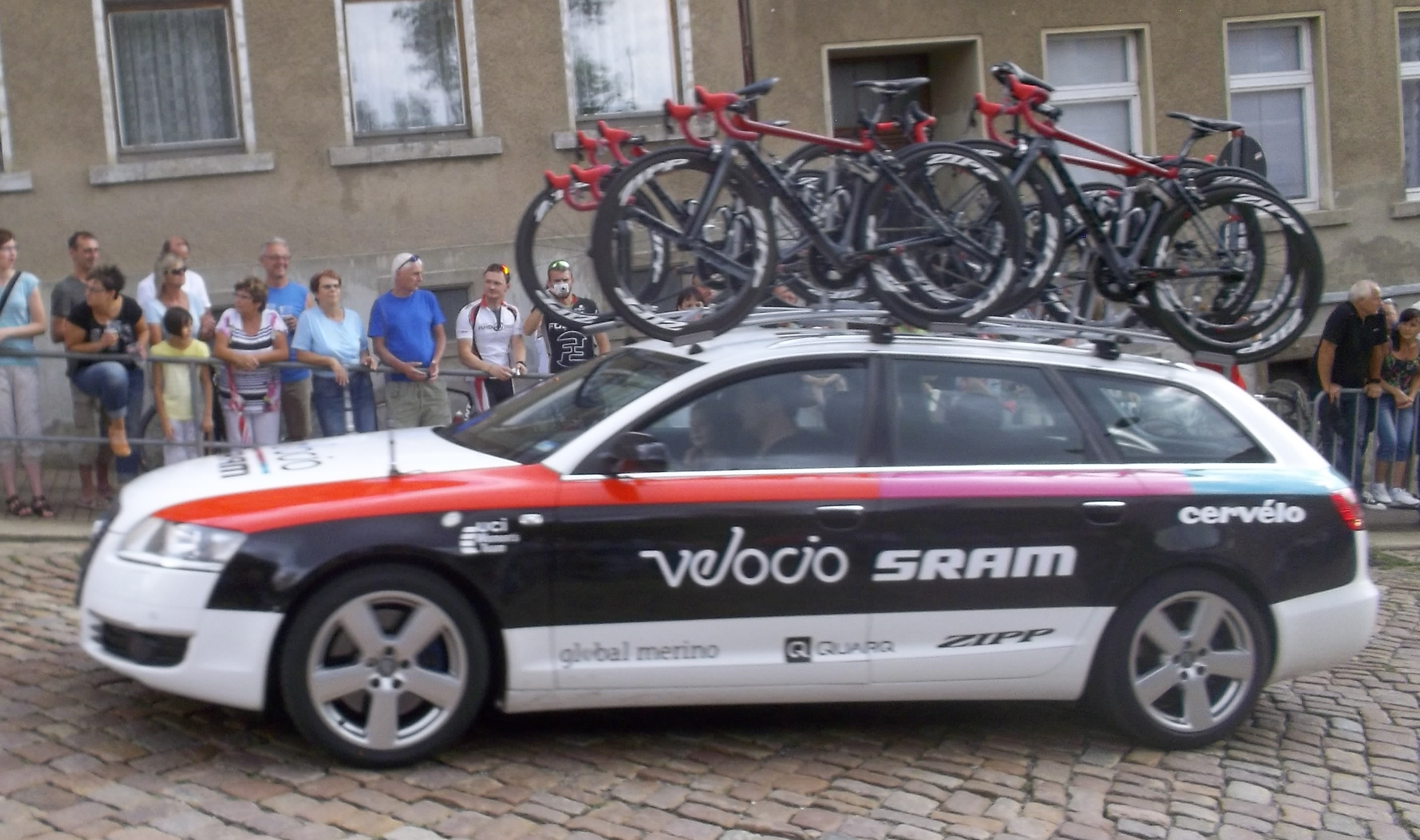 Car of the team Velocio-SRAM during the Thüringen Rundfahrt 2015